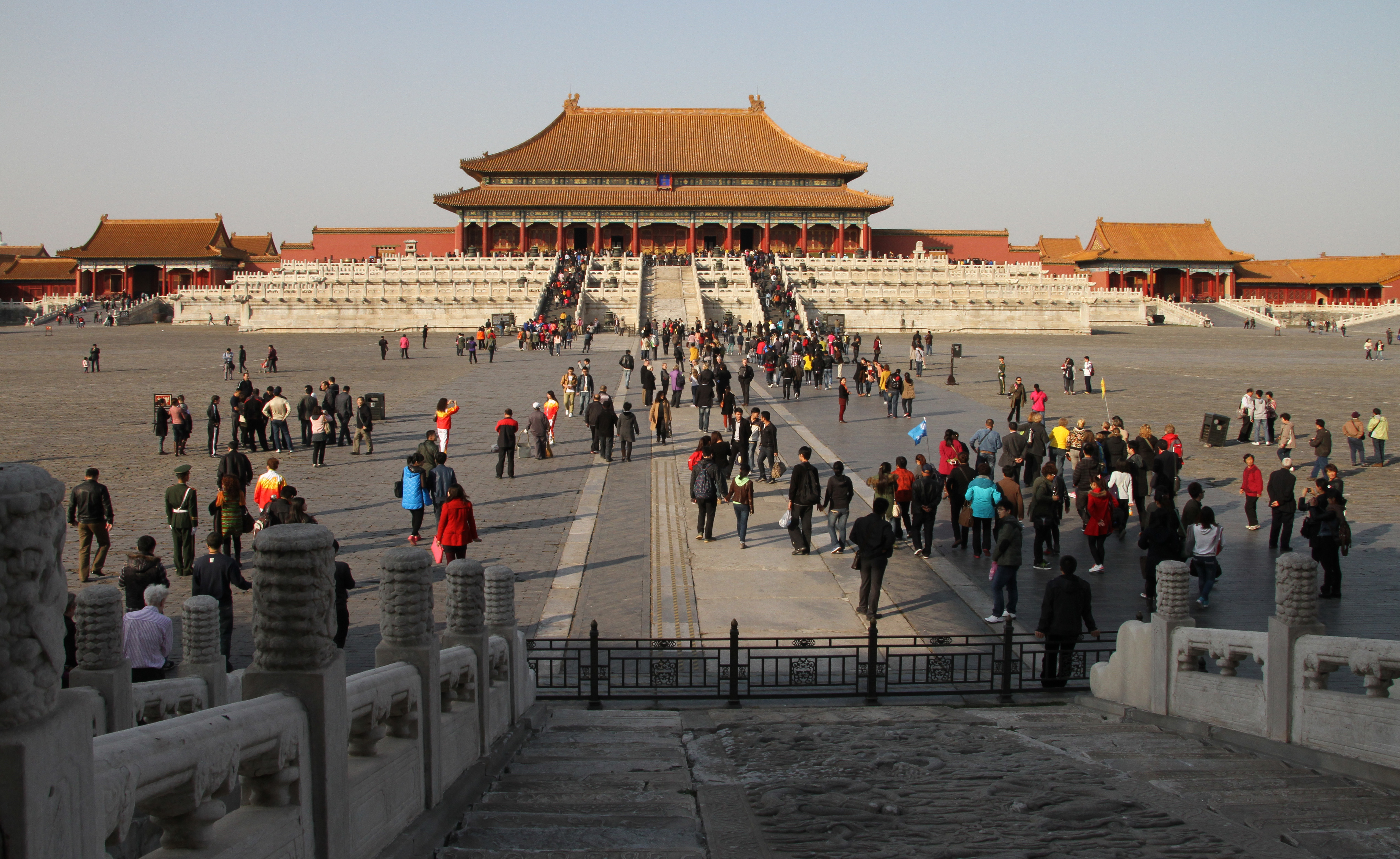 Beijing - Forbidden City - Hall of Supreme Harmony